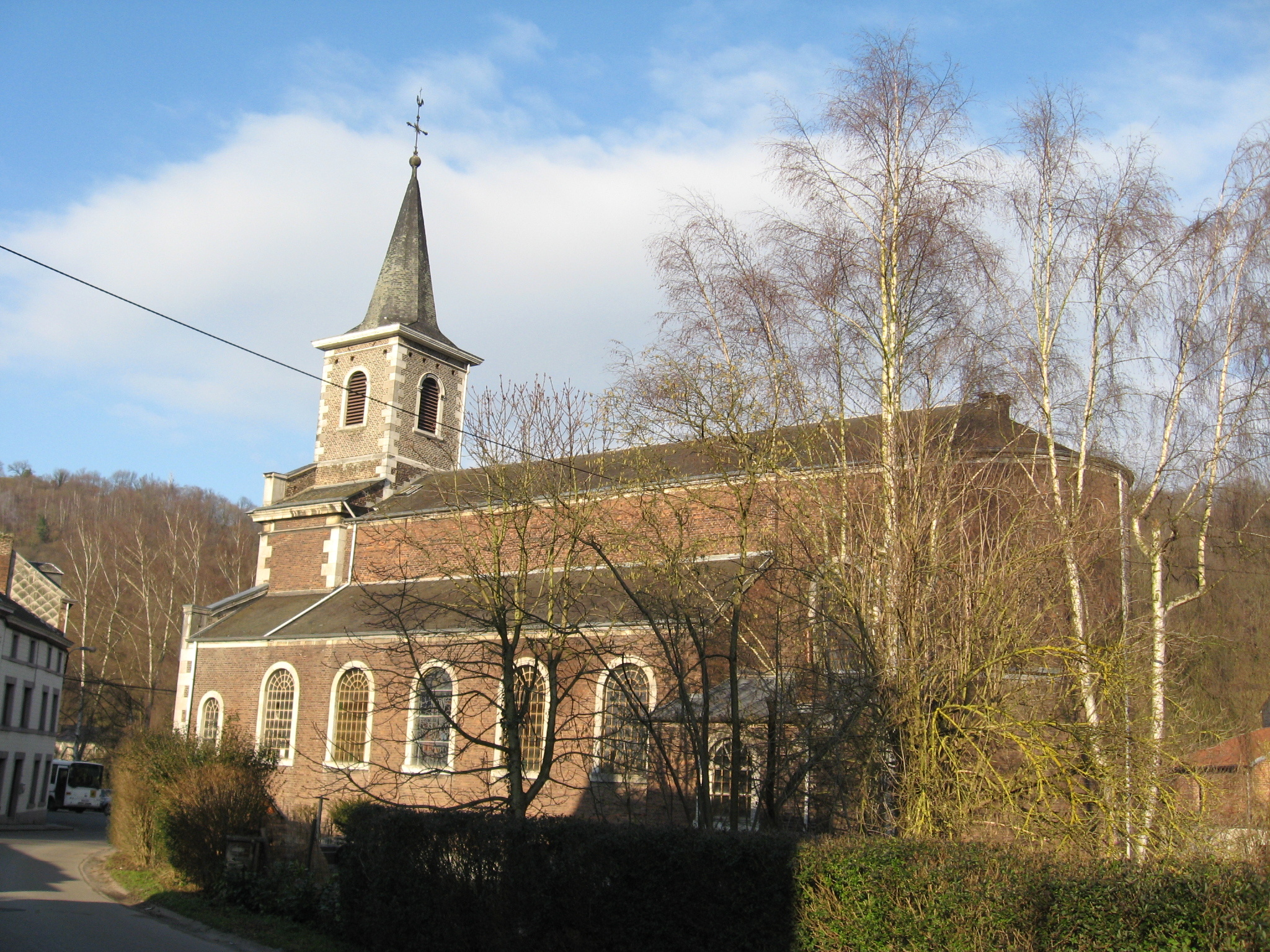 Church of Saint Giles in Fraipont, Trooz, Liège, Belgium